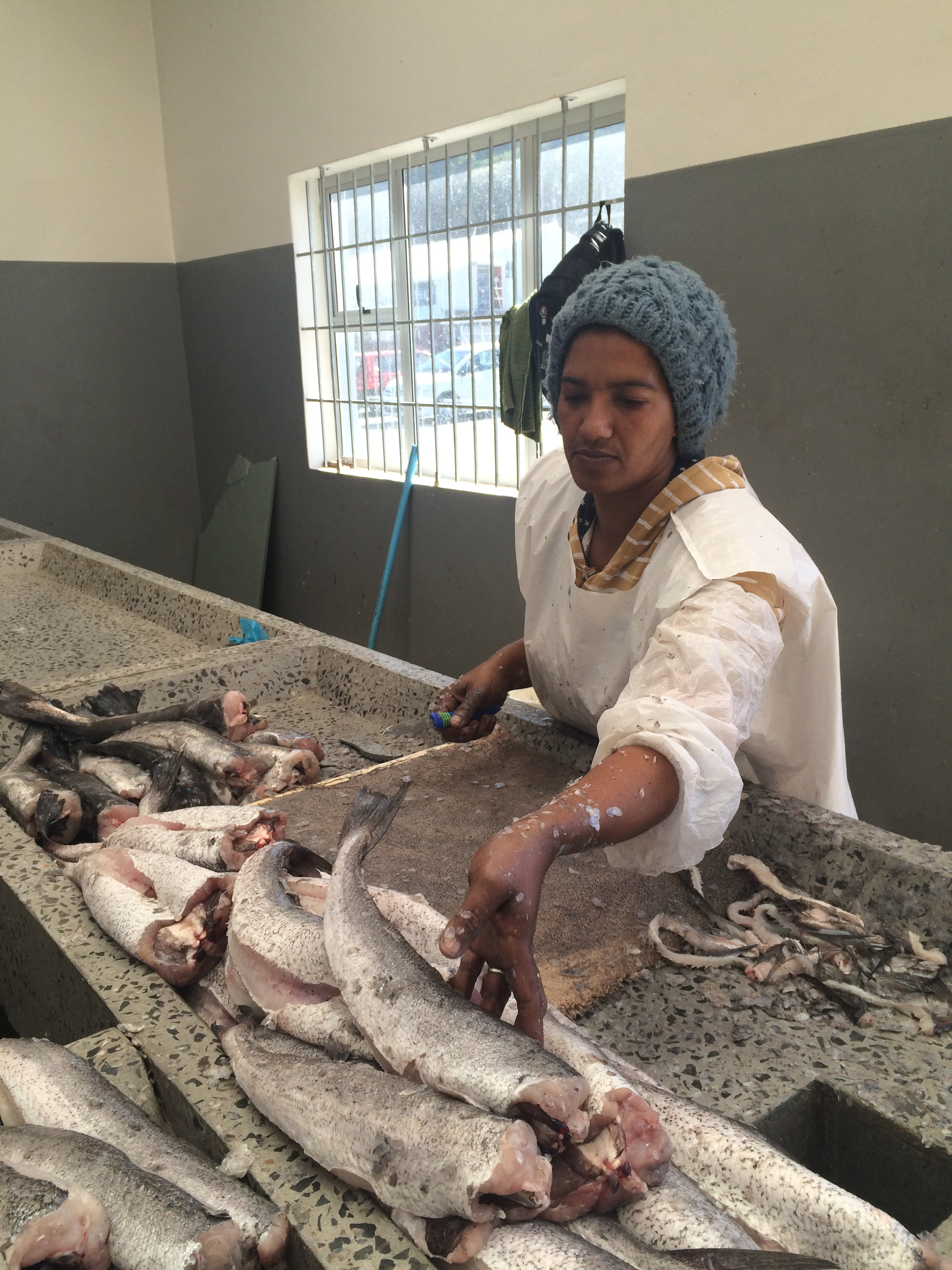 Workers gut, clean, and scale fish at Hout Bay Harbour for a commercial operation. This is an image of food from South Africa